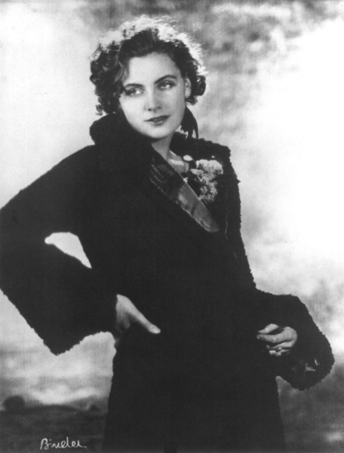 Greta Garbo in The Joyless Street. Alexander Binder (for Atelier Binder) made the portrait during the filming.